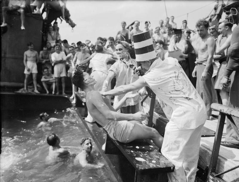 crossing the Line Ceremony' on Board the Troop Transport Ss Empress of Australia, on An African Troop Convoy, August 1941 The initiate being ducked by the 'bears' after being shaved by King Neptune's barber.